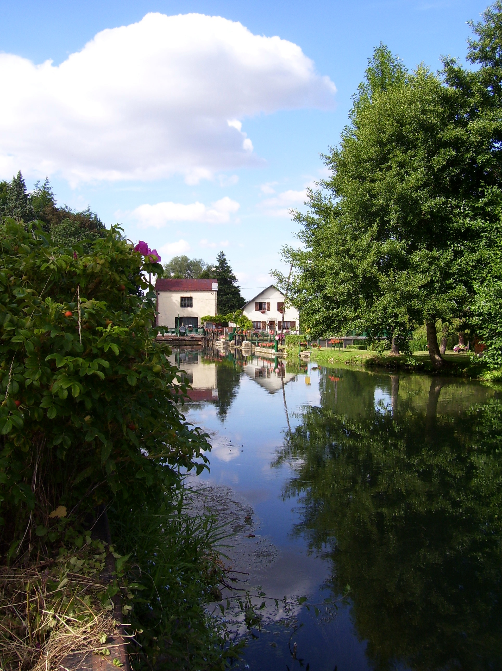 The river Risle near Glos-sur-Risle (1,5km) and Saint-Philbert-sur-Risle (2km, Eure, France).